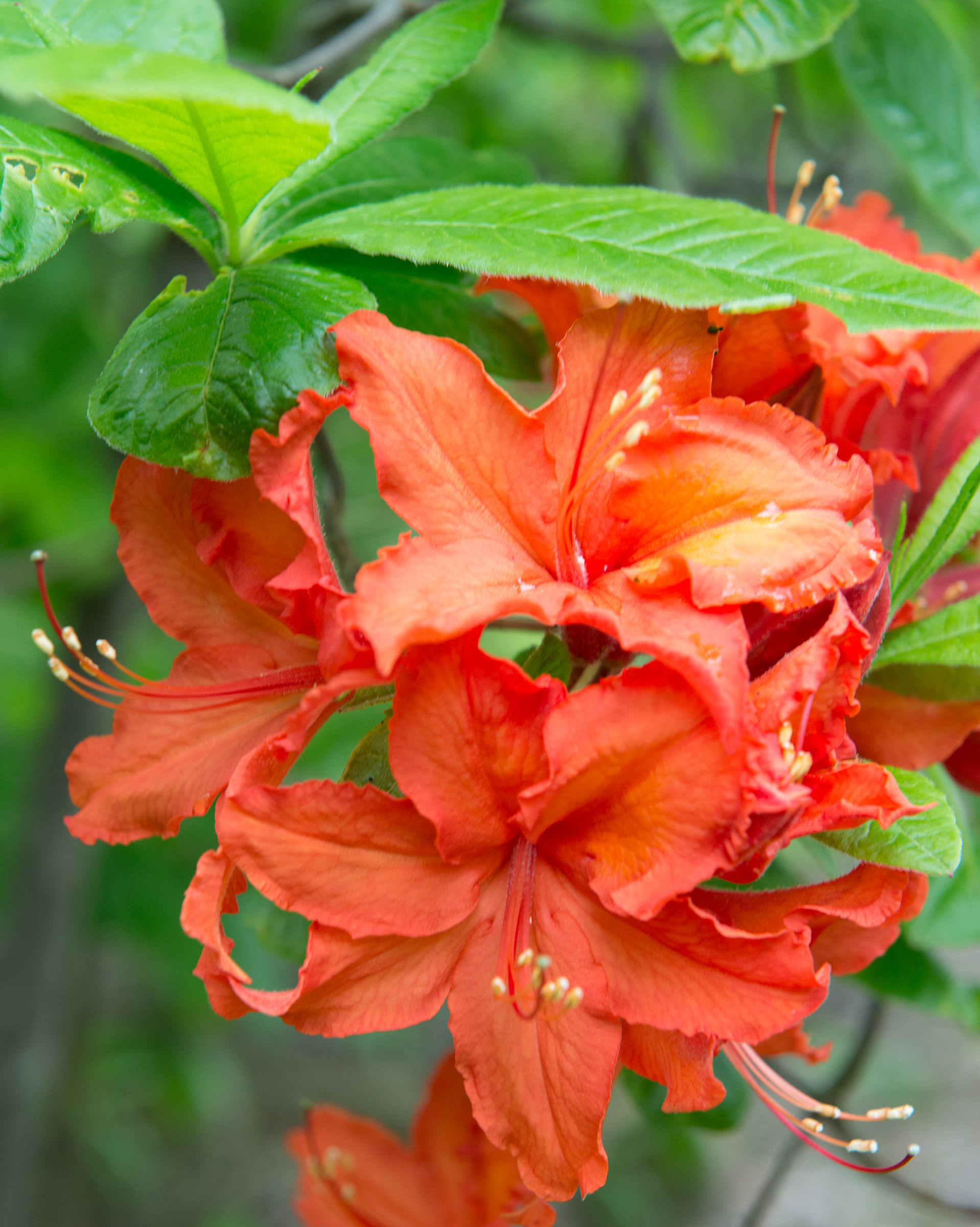 Rhododendron 'Brazil' (Knap Hill Hybrid Azalea) in flower